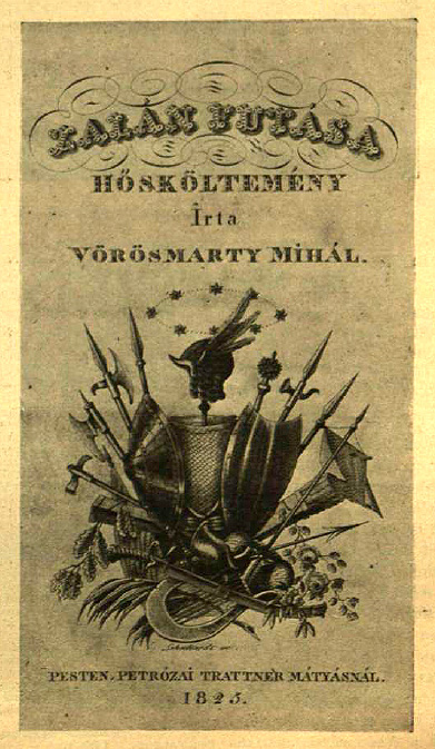 The first edition of Zalán futása ("The Flight of Zalán"), the heroic epic of Hungarian poet Mihály Vörösmarty